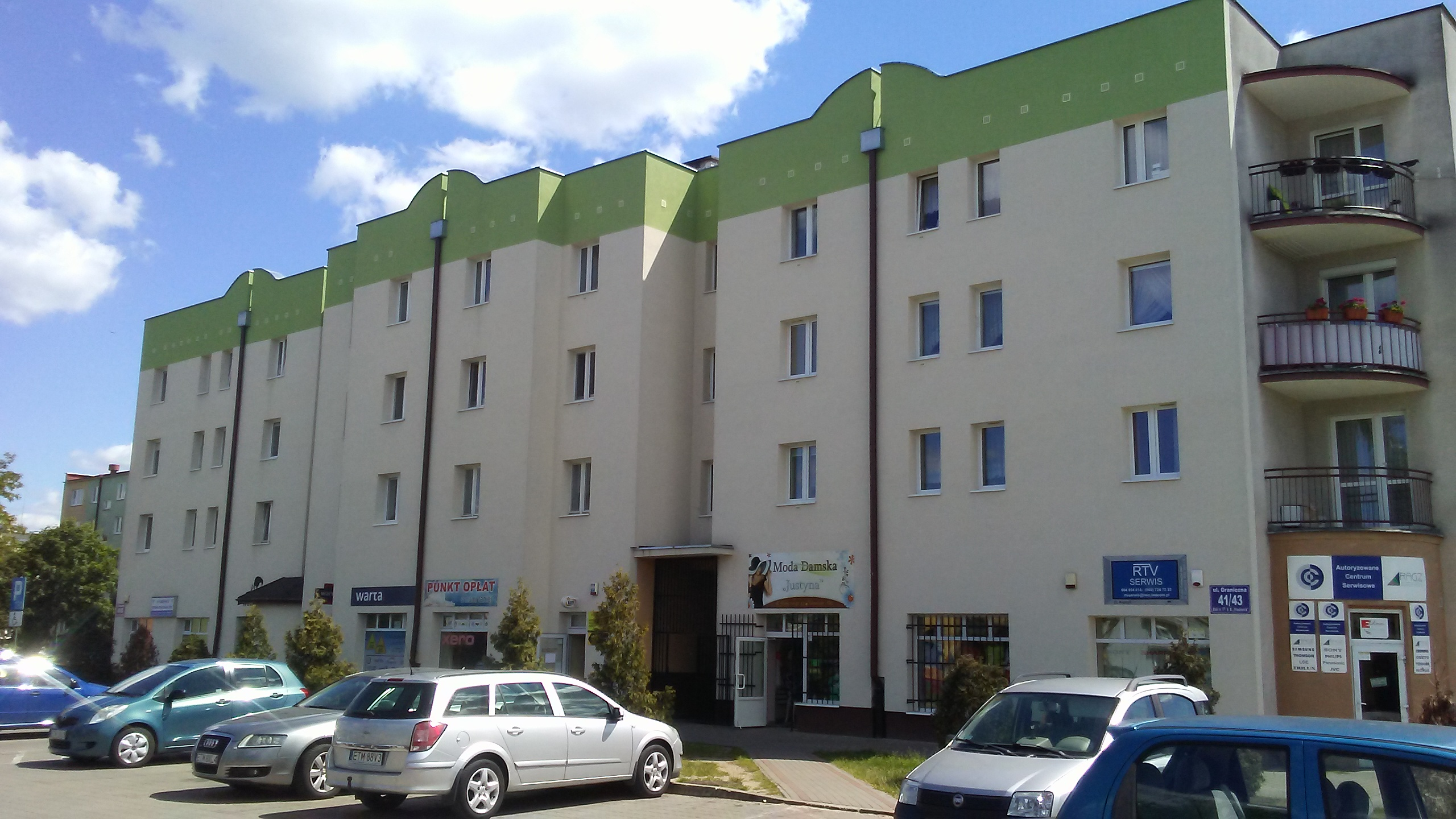 Graniczna Street in Tomaszów Mazowiecki, Block of flats